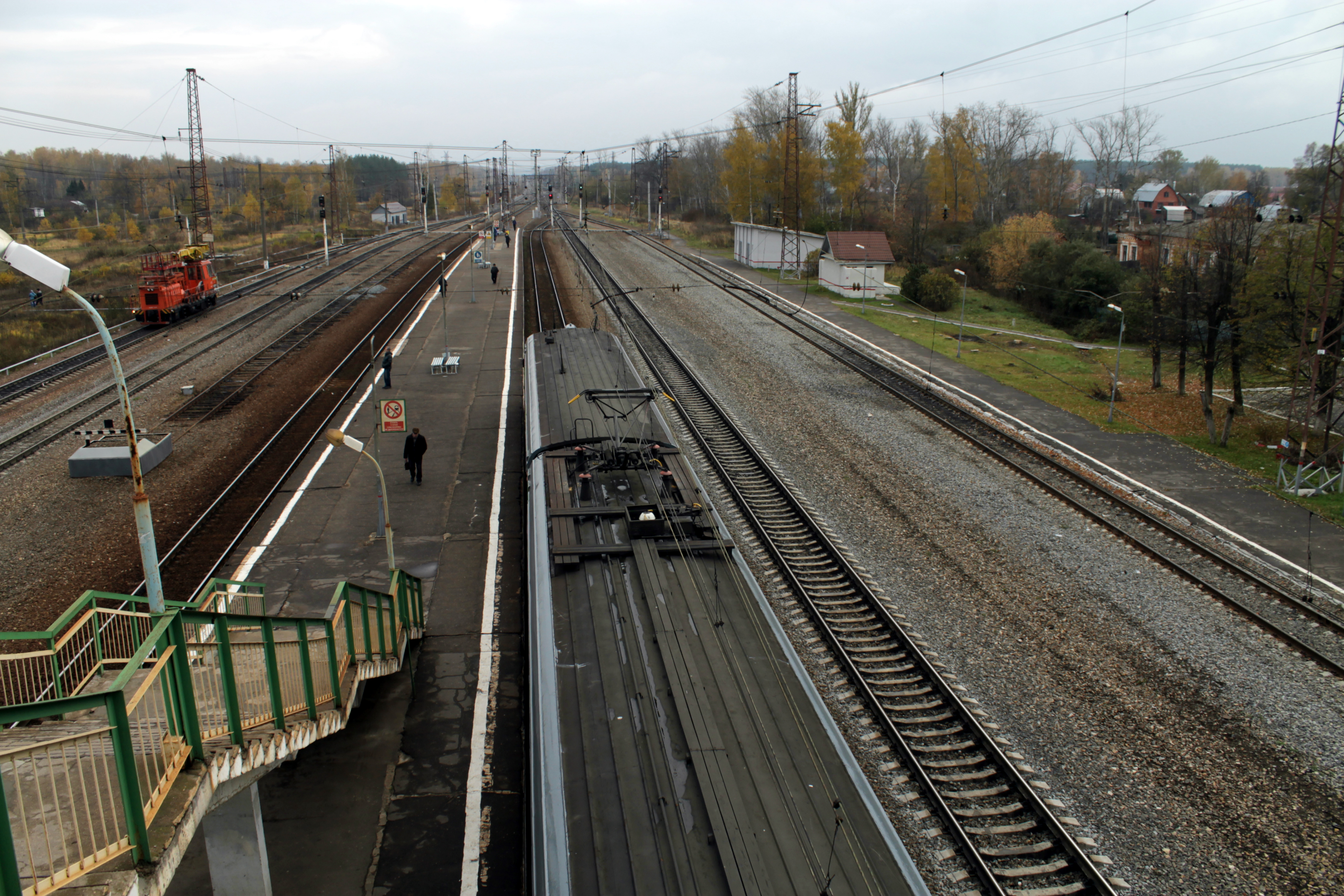 View of Zhilevo train platform